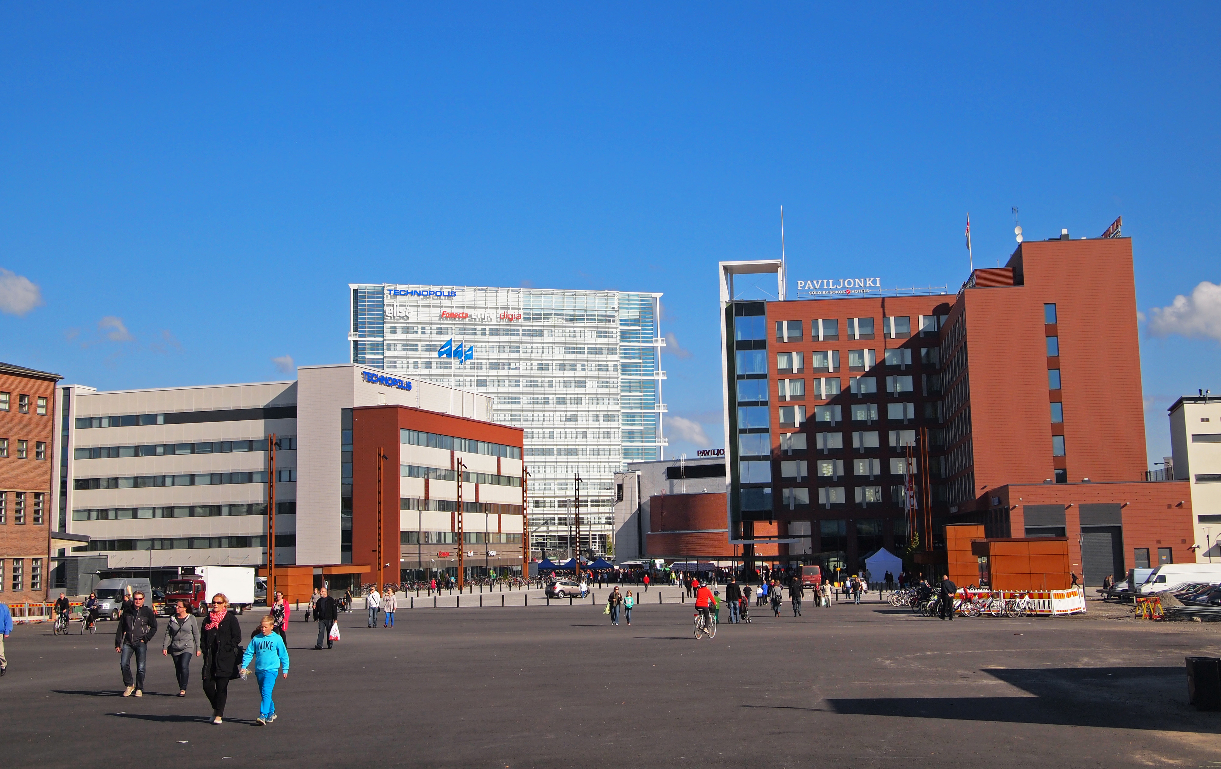 Lutakko square in Jyväskylä. This photograph was taken with an Olympus E-PL1